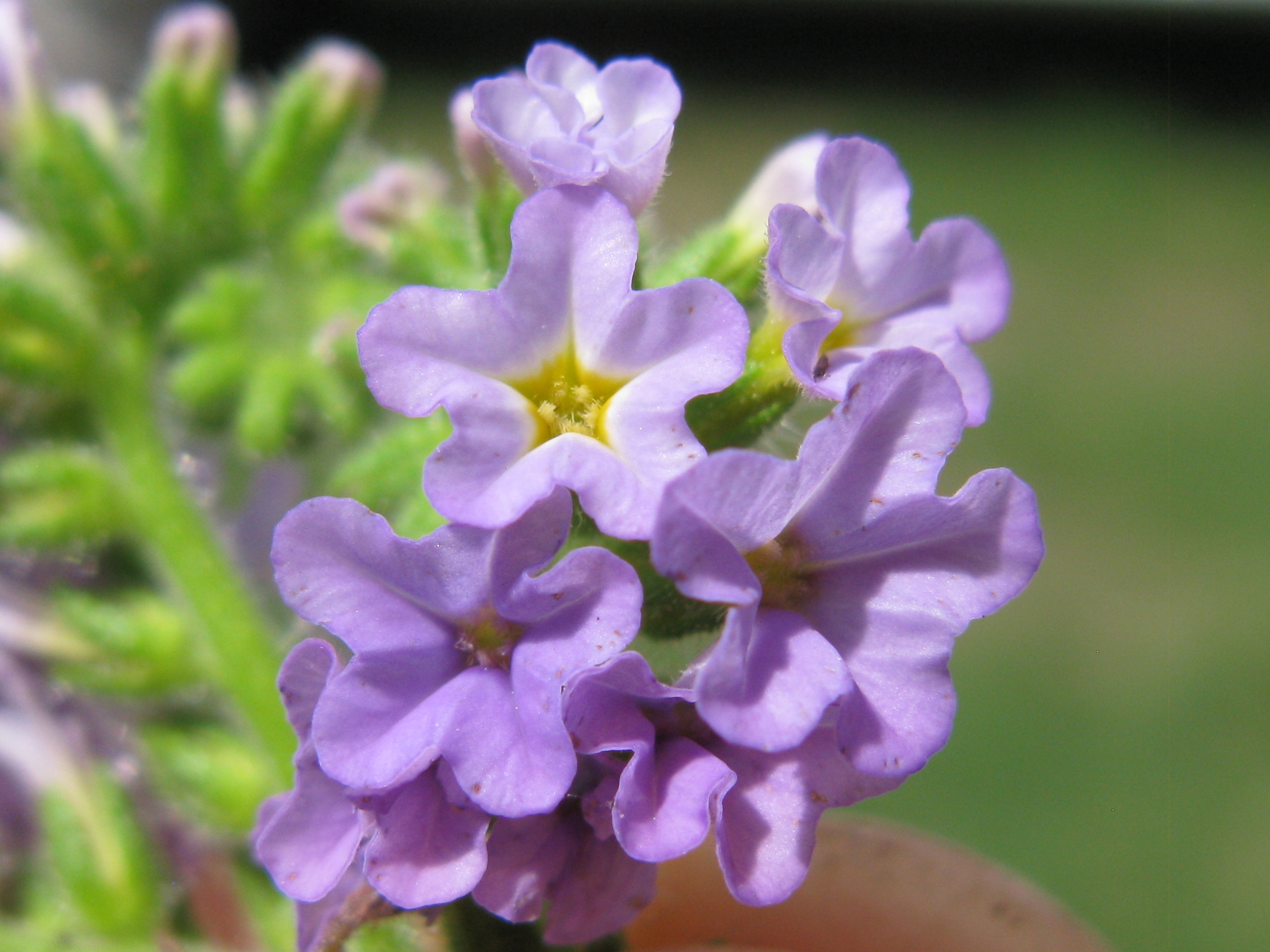 Introduced, warm season, perennial, prostrate herb to 60 cm tall. Leaves and stems are hairy with glandular and non-glandular hairs. Leaves are alternate, lanceolate, deeply veined and stem clasping. Blue to mauve tubular flowers (with yellow stamens and throat) arranged caterpillar-like in 2 rows on one side of the flowering stem (scirpoid cyme). Flowers most of the year, but not in winter in southern areas. Grows on a wide range of soil types. Predominantly in areas that receive at least 50% of average annual rainfall in summer. It is mostly a problem of run down pasture and disturbed areas such as cropping paddocks, roadsides and waste land. Regenerates from seed and vegetatively from pieces of plant and roots. It is spread by water, fur of animals and in the gut of animals. A weed which is toxic to animals, quite invasive and difficult to control. Causes chronic liver damage in cattle, sheep and horses; can be fatal. Cultivation encourages its spread by stimulating germination and regrowth of plant parts. Management requires an integrated approach including herbicides, productive pasture, grazing management and biological control. There has only been one biological control agent released in Australia, the blue heliotrope leaf-beetle. At high densities, leaf-beetles can completely defoliate blue heliotrope, with both the larvae and adults feeding on the leaves.